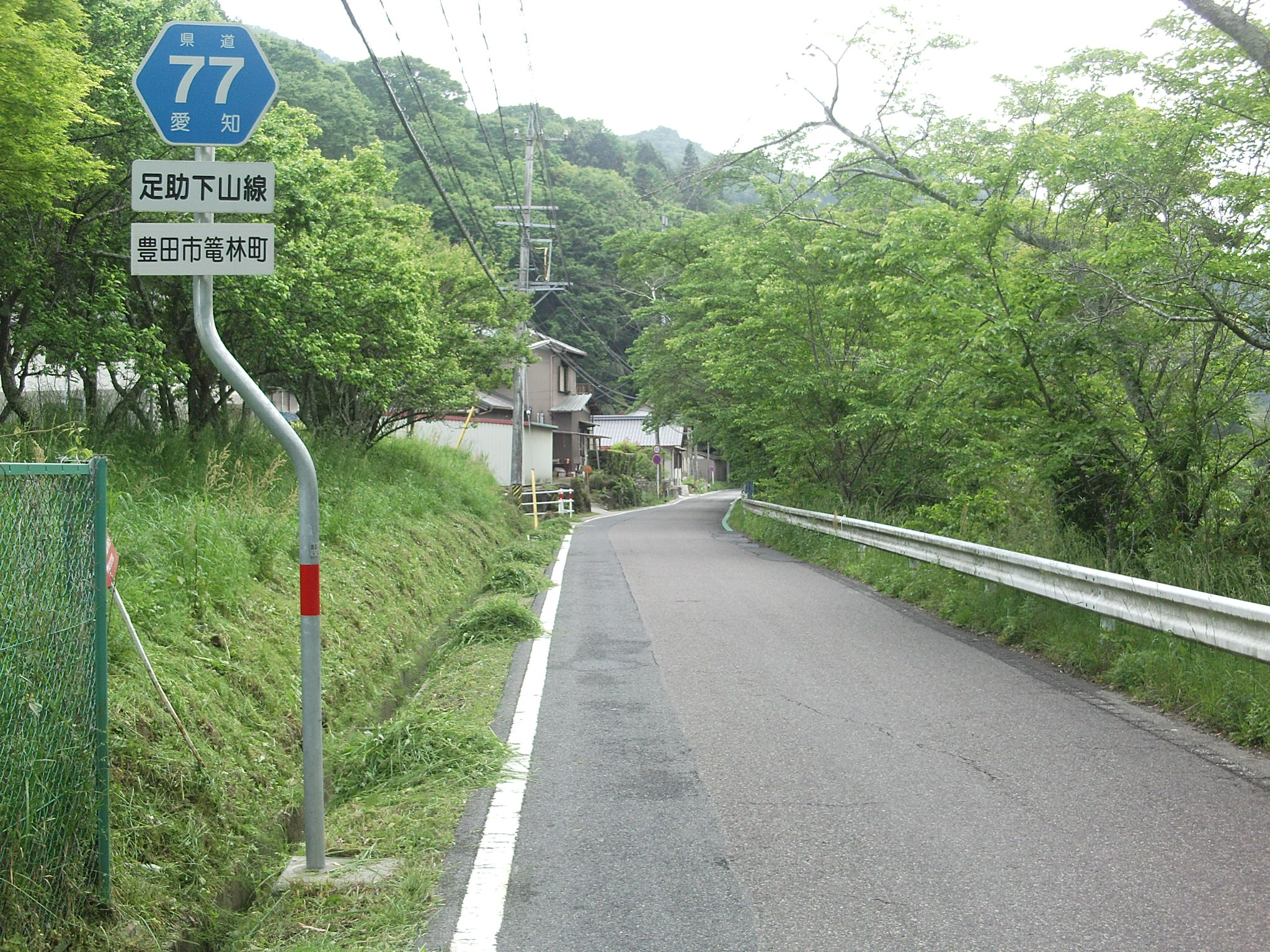 Aichi prefectural road No.77 in Kagohayashicho, Toyota, Aichi.